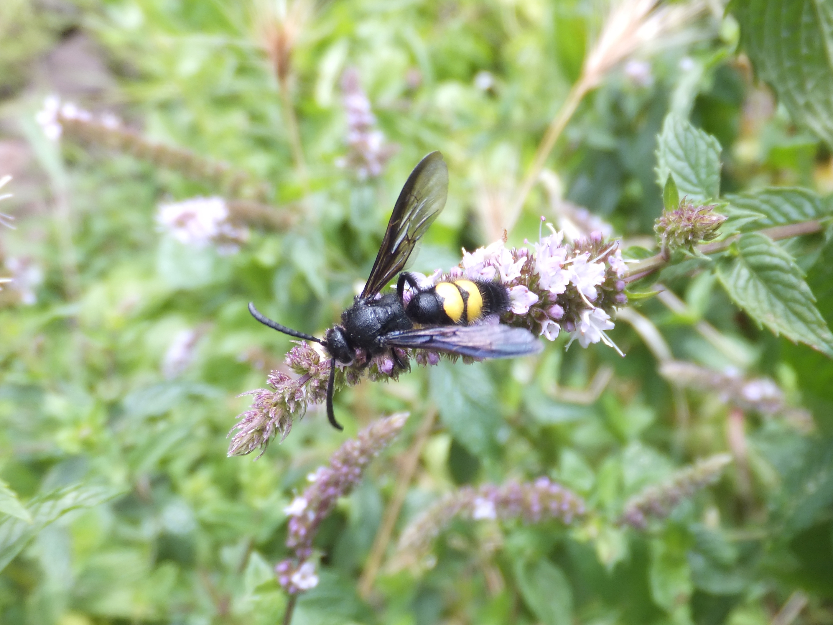 Male of Scolia hirta on a peppermint plant